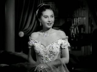 Cropped screenshot of Barbara Stanwyck from the trailer for the film The Man with a Cloak